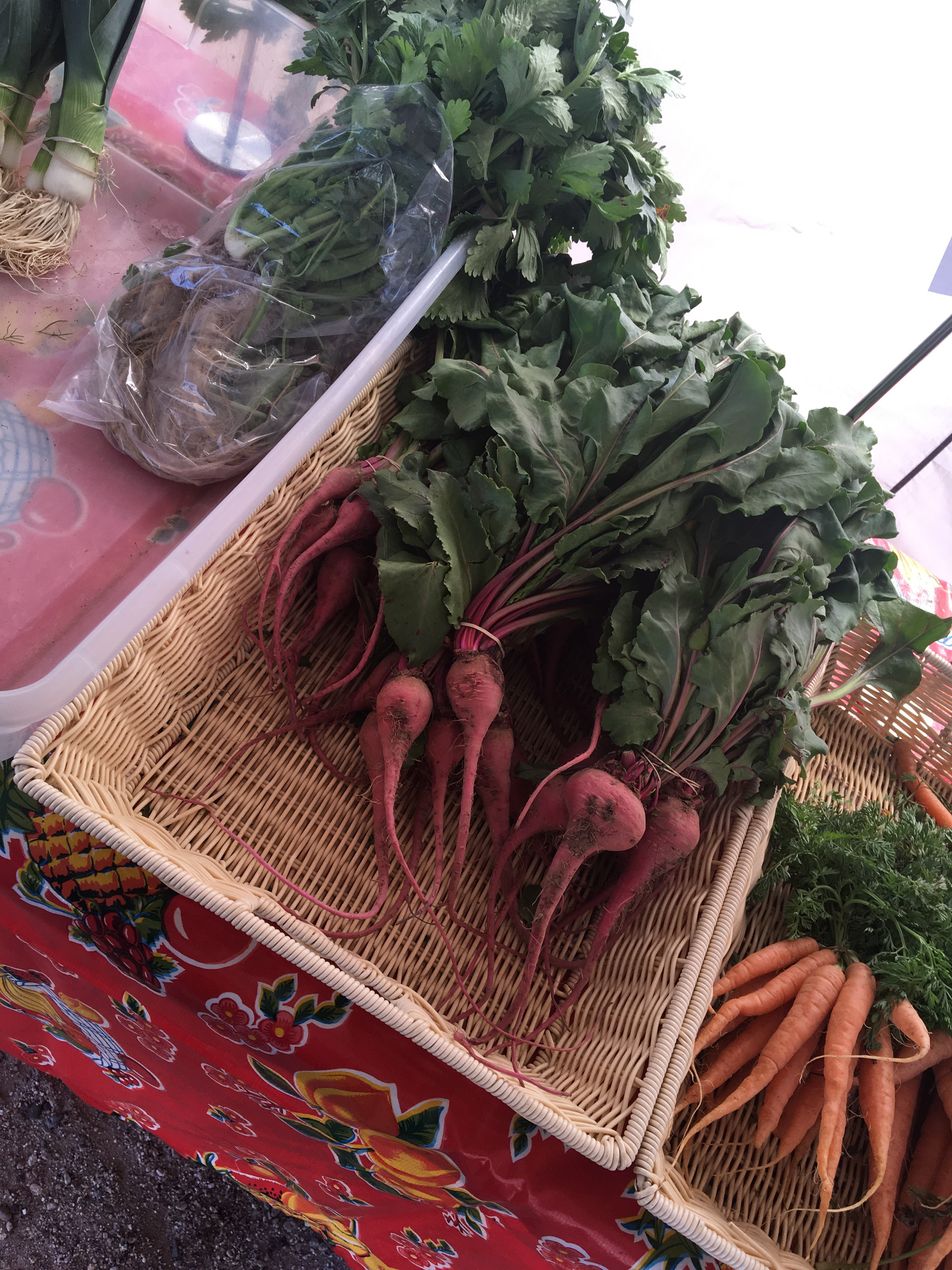 Produce for sale